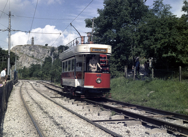 National Tramway Museum, Crich, Derbyshire This museum now operates as Crich Tramway Village. The car shown is Southampton 45, and this was the very first tram acquired by the Tramway Museum Society, back in 1950 before this museum had been constructed. The monument in the background is called Crich Stand, and is visible for many miles around.